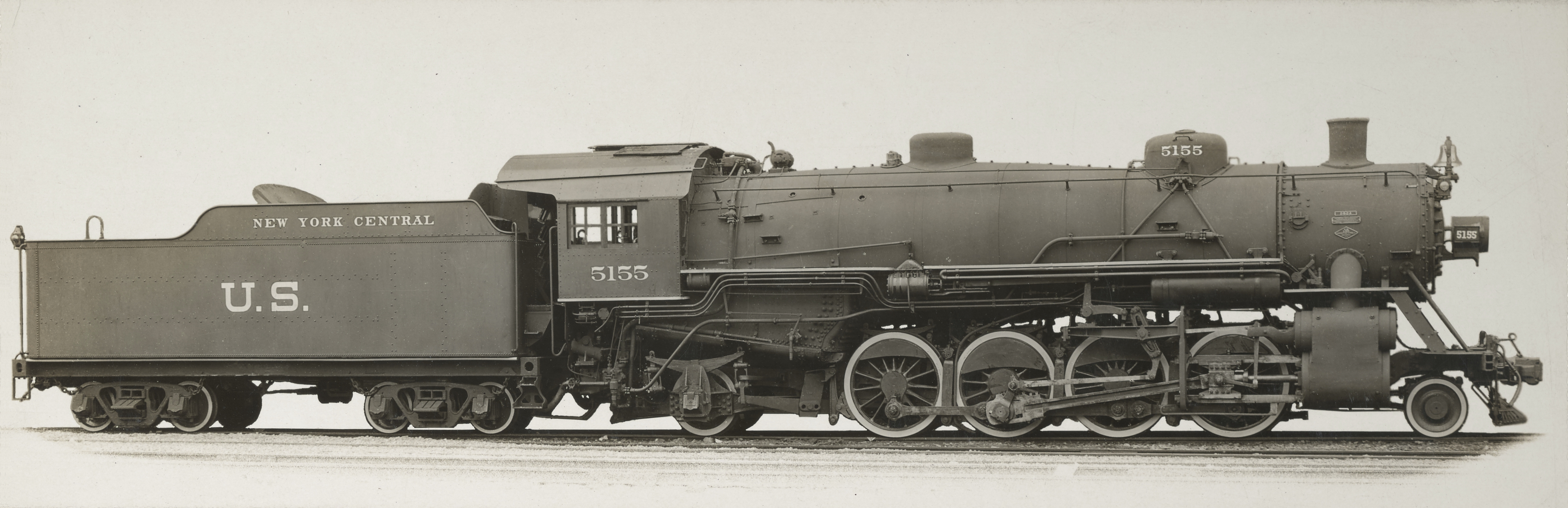 Lima Locomotive Works builder's photo of a New York Central USRA 2-8-2 locomotive in 1918.